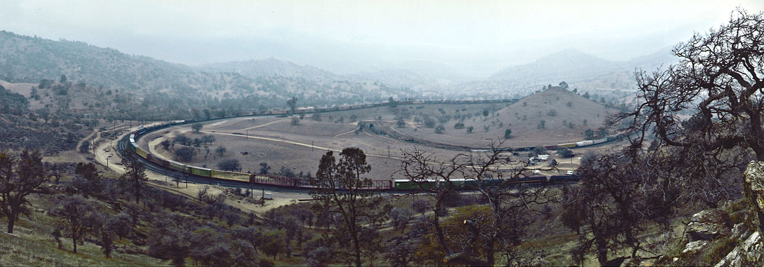 Tehachapi Loop I shot this pano myself, using Foveon Studio Camera with Canon 14mm lens, on a cold day before Christmas, probably 2001.